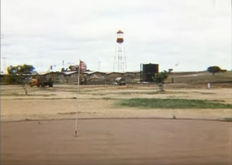 The water tower of San Tome, Venezuela during the 1950s. The flag in front is the number 2 hole of the town golf course. The area was the flat plain of the Mesa de Guanipa, so the water tower was a major landmark.